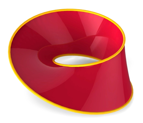 Möbius strip